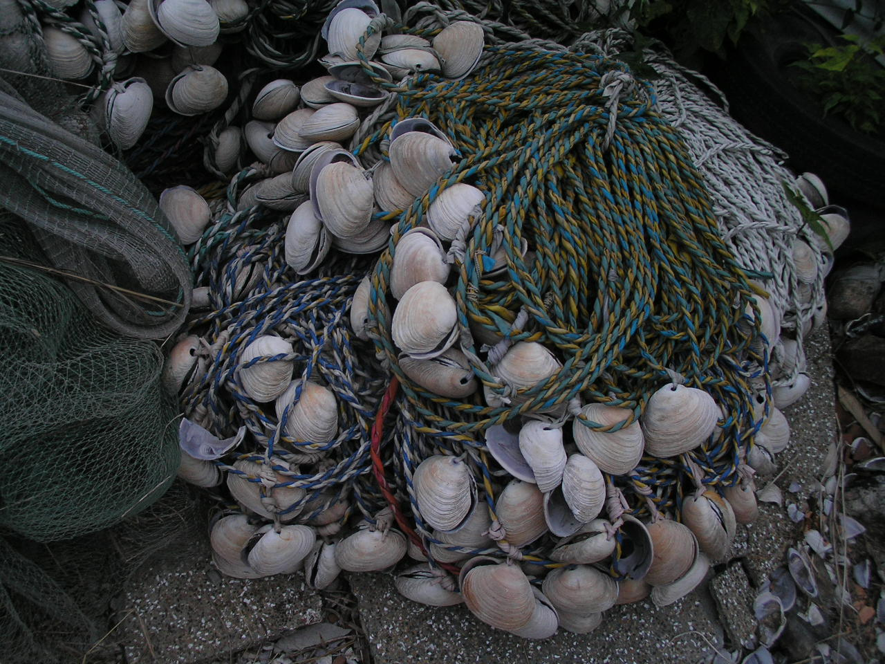 Unidentified bivalves.